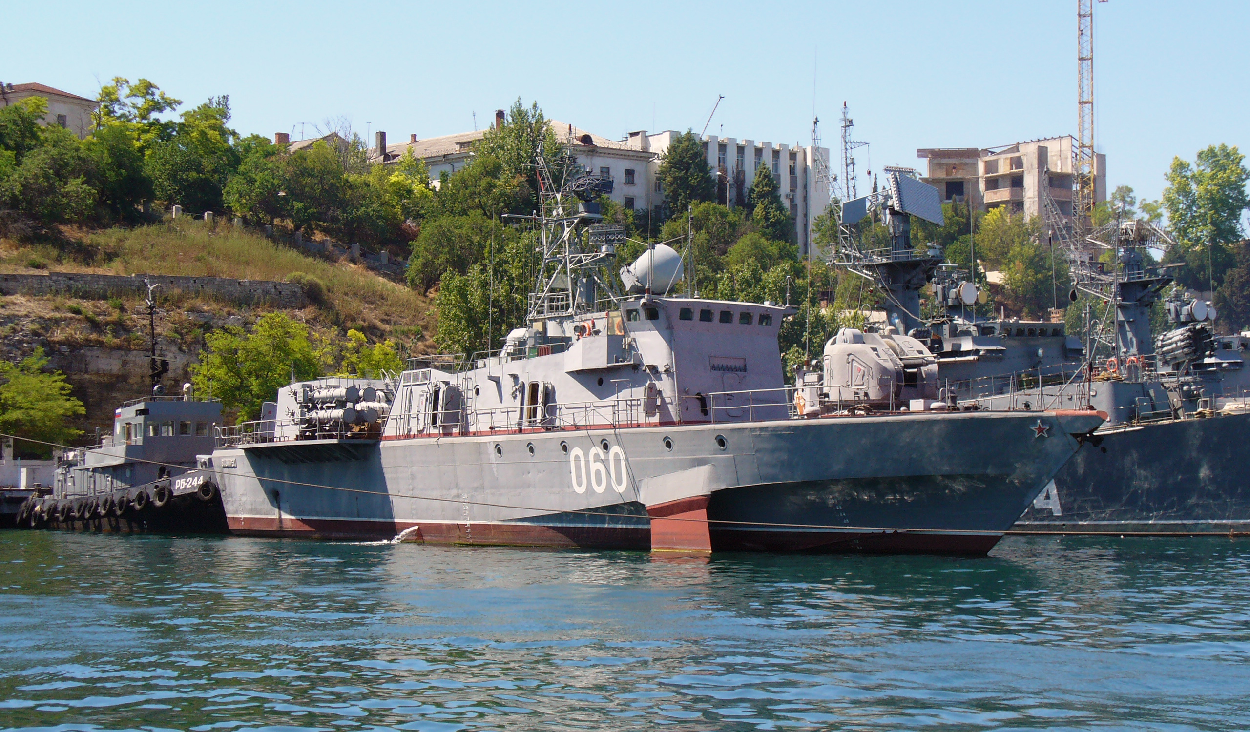 Project 11451 small anti-submarine ship MPK-220 "Vladimirets" in Southern bay of Sevastopol.